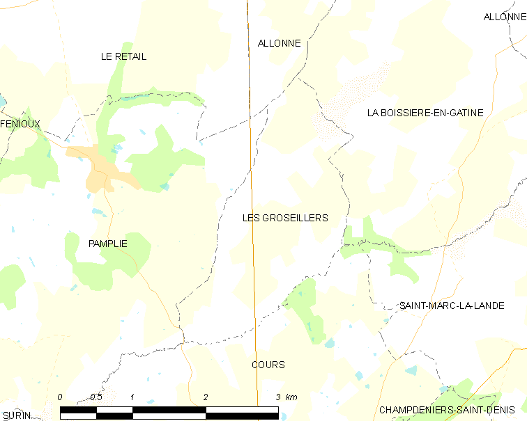 Map of French municipality Les Groseillers